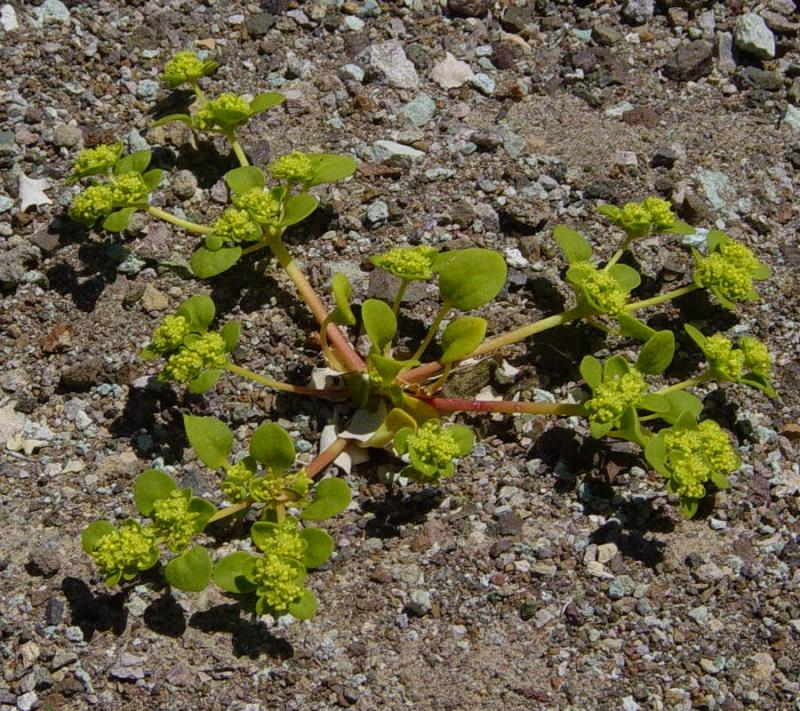 Goldcarpet at Artists Palette wash Death Valley National Park Gilmania (Gilmania luteola, Goldencarpet or Golden Carpet)